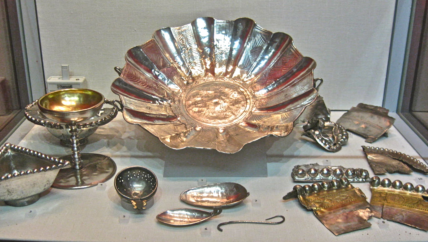 Silver from the Traprain Law Treasure, East Lothian, Scotland.